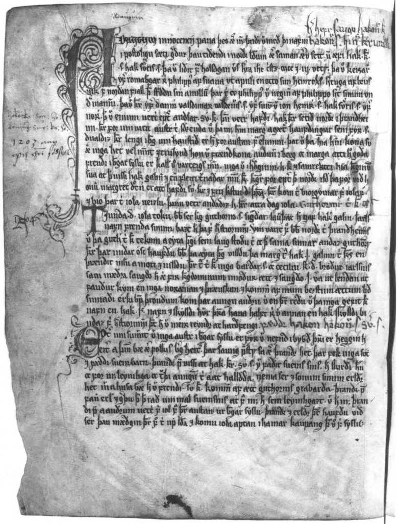 A black and white photo of folio 139verso of AM 47 fol (E) - Eirspennill. This is the first folio of Hákonar saga Hákonarsonar within the manuscript.